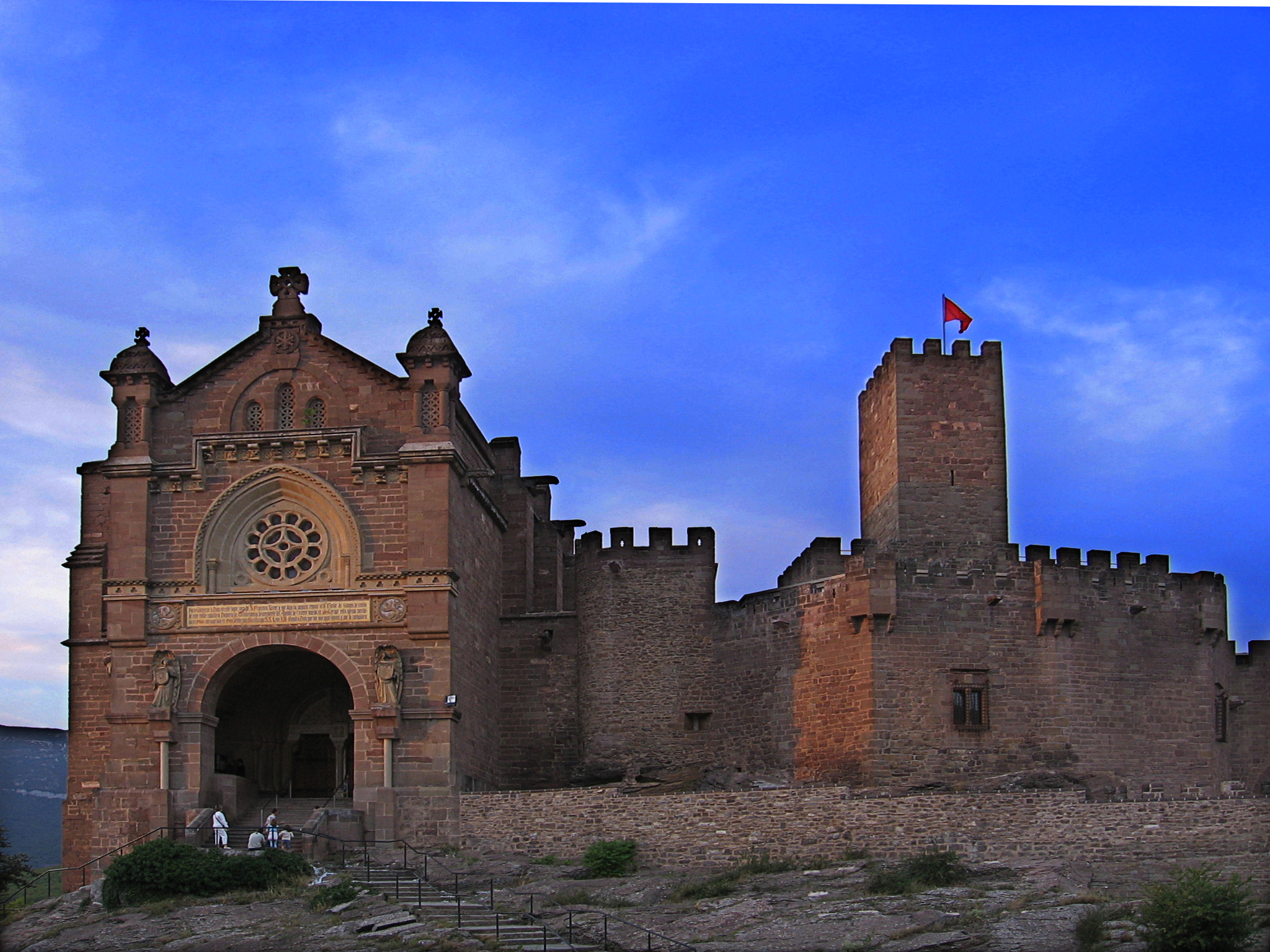 House, so to speak, birthplace of Saint Francis Xavier, patron saint of Navarre and close associate of St. Ignatius Loyola, founder of the Society of Jesus.